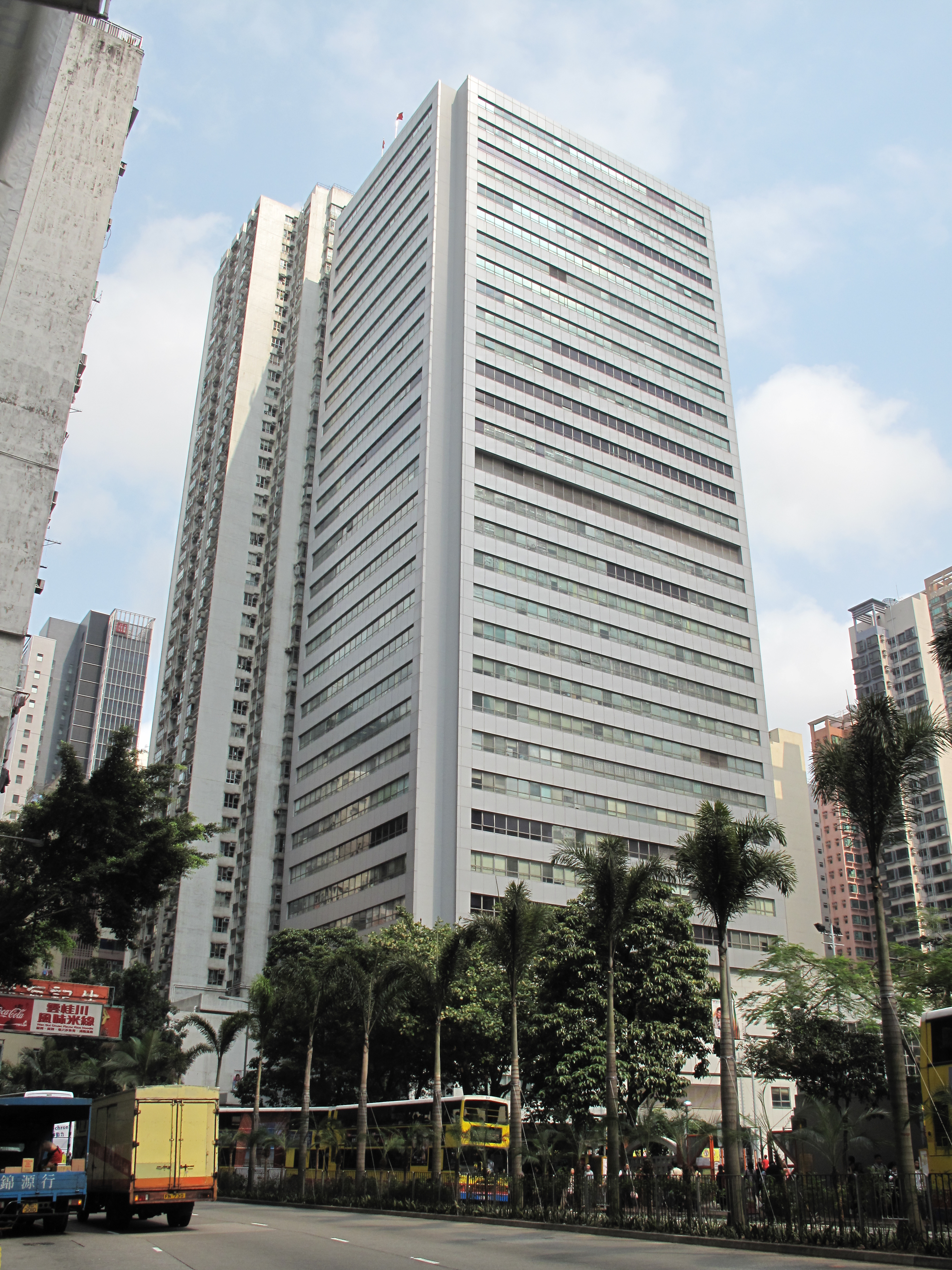 Photo of Southorn Centre